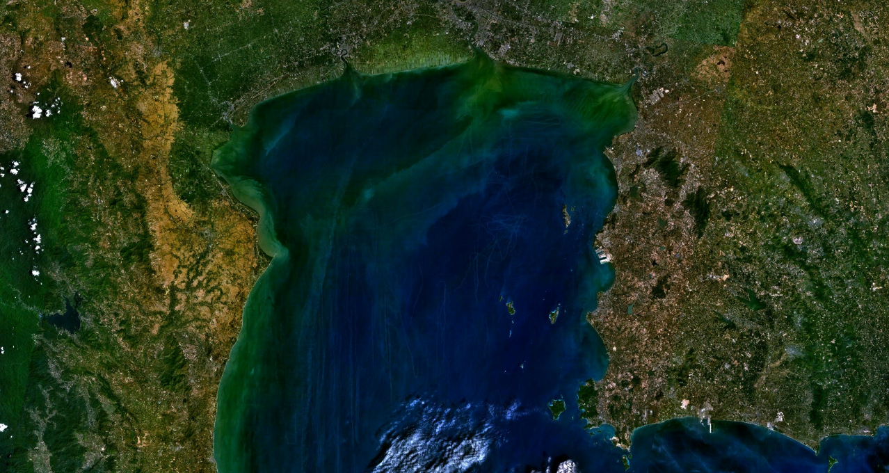 Bay of Bangkok from Space